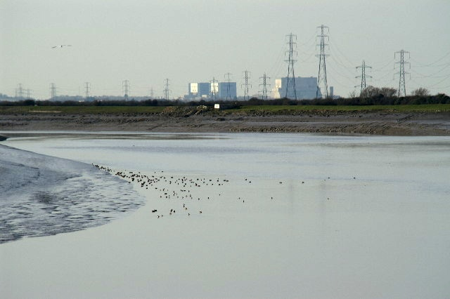 River Parrett. Looking down stream with Hinkley Power Stations in the background